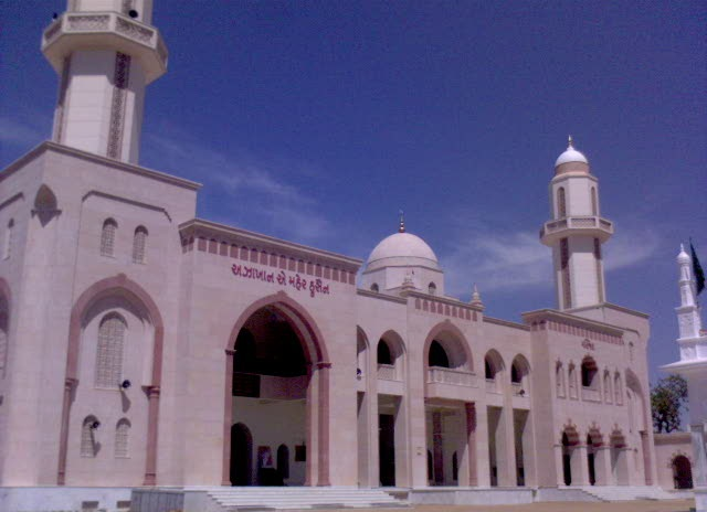 This is the Islamic mosque which is located in Badarpur village of the Mehsana district, in the Indian state of Gujarat, India. It build having cost of 7-8 crore.